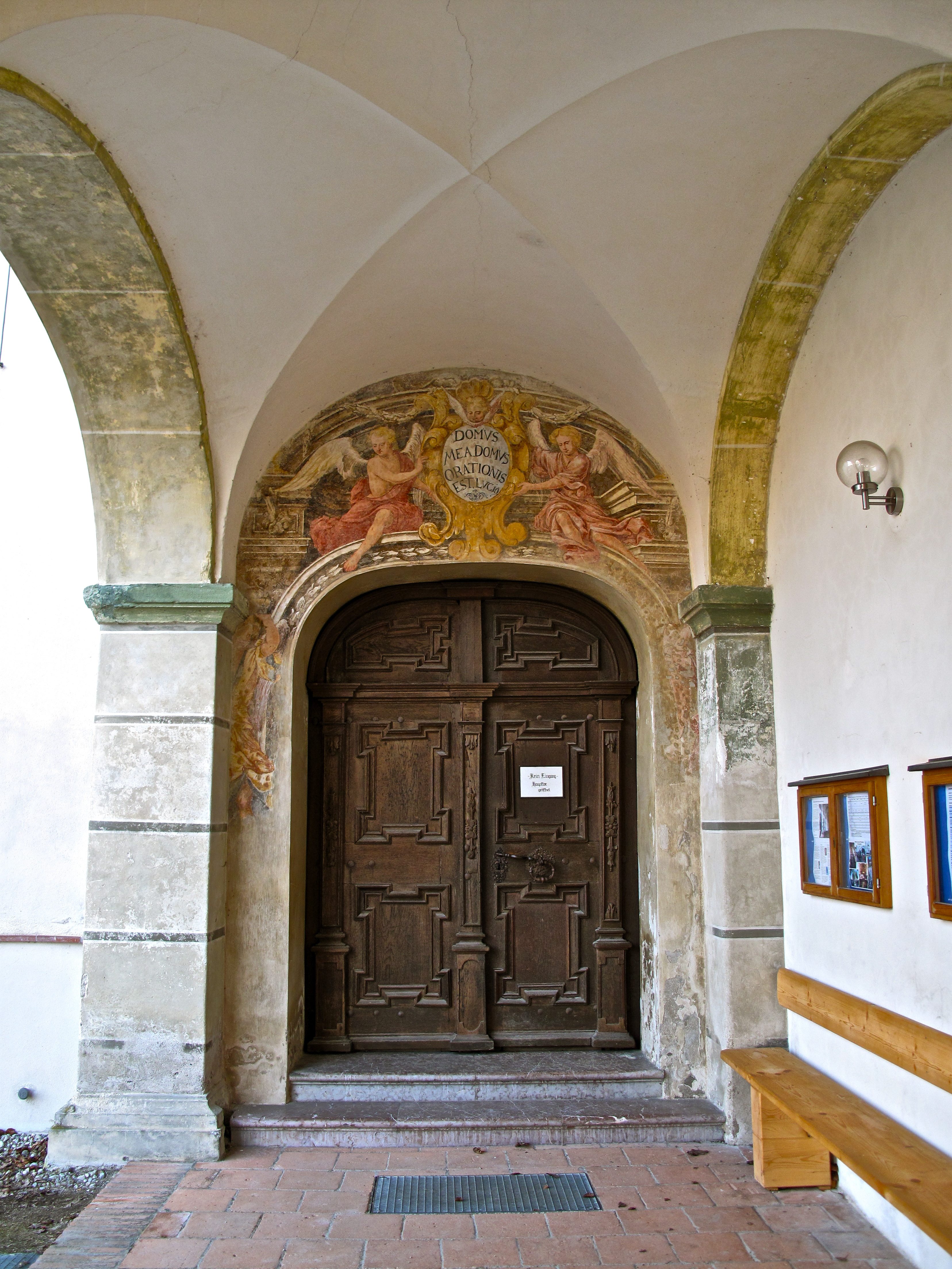 Door of the Benediktbeuern Abbey in Benediktbeuern, Upper Bavaria, Germany